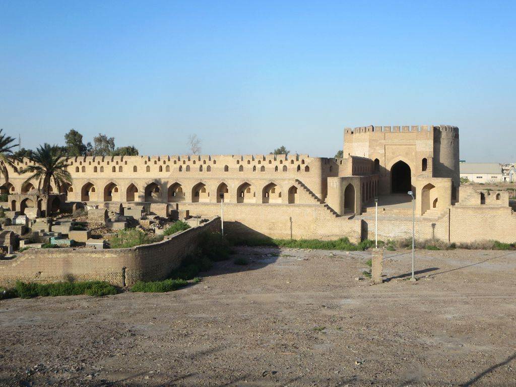 The Al-Wastani Gate (1120) is the last of the four medieval gates of Baghdad, Iraq.